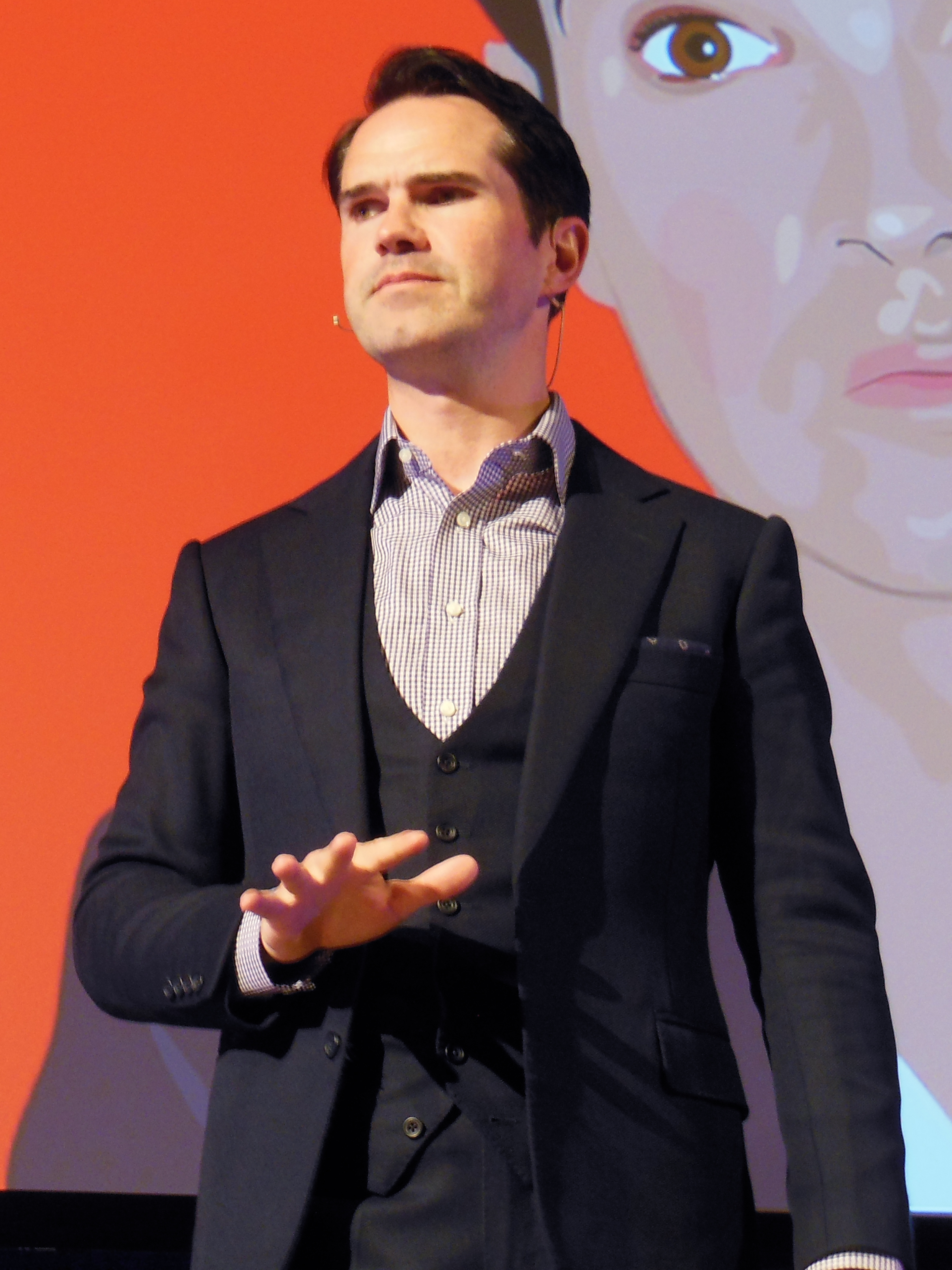 Jimmy Carr at the Gothenburg Concert Hall in april 2015.